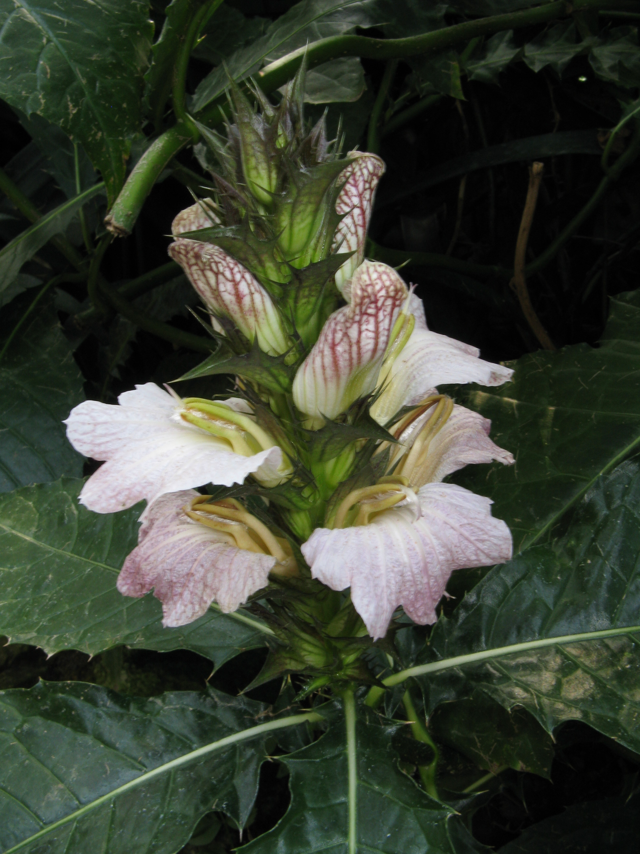 Acanthus montanus